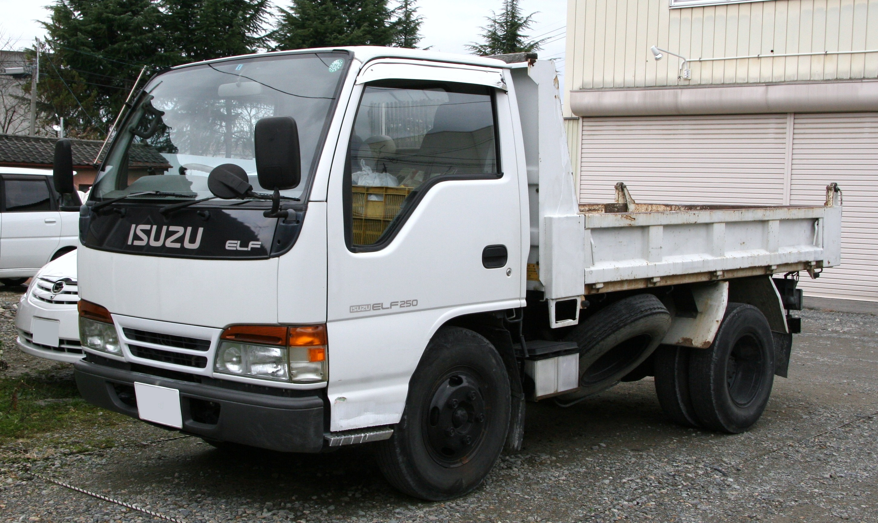 Isuzu Elf